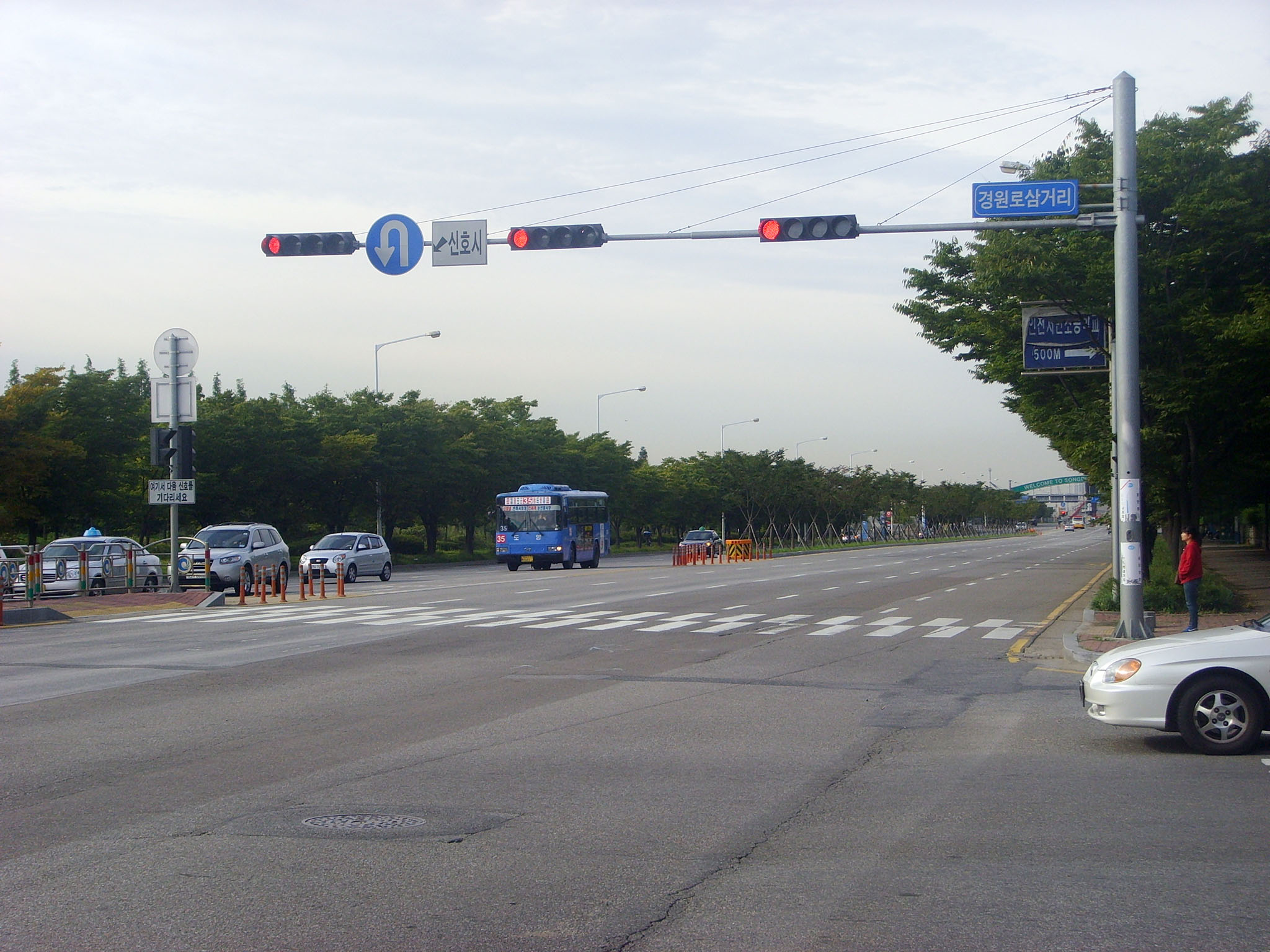 Gyeogwon-no, Incheon